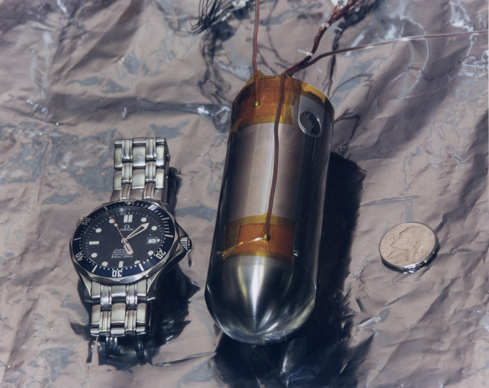 The Deep Space 2 forebody, which contains microinstruments and systems, is comparable in size to a man's wristwatch